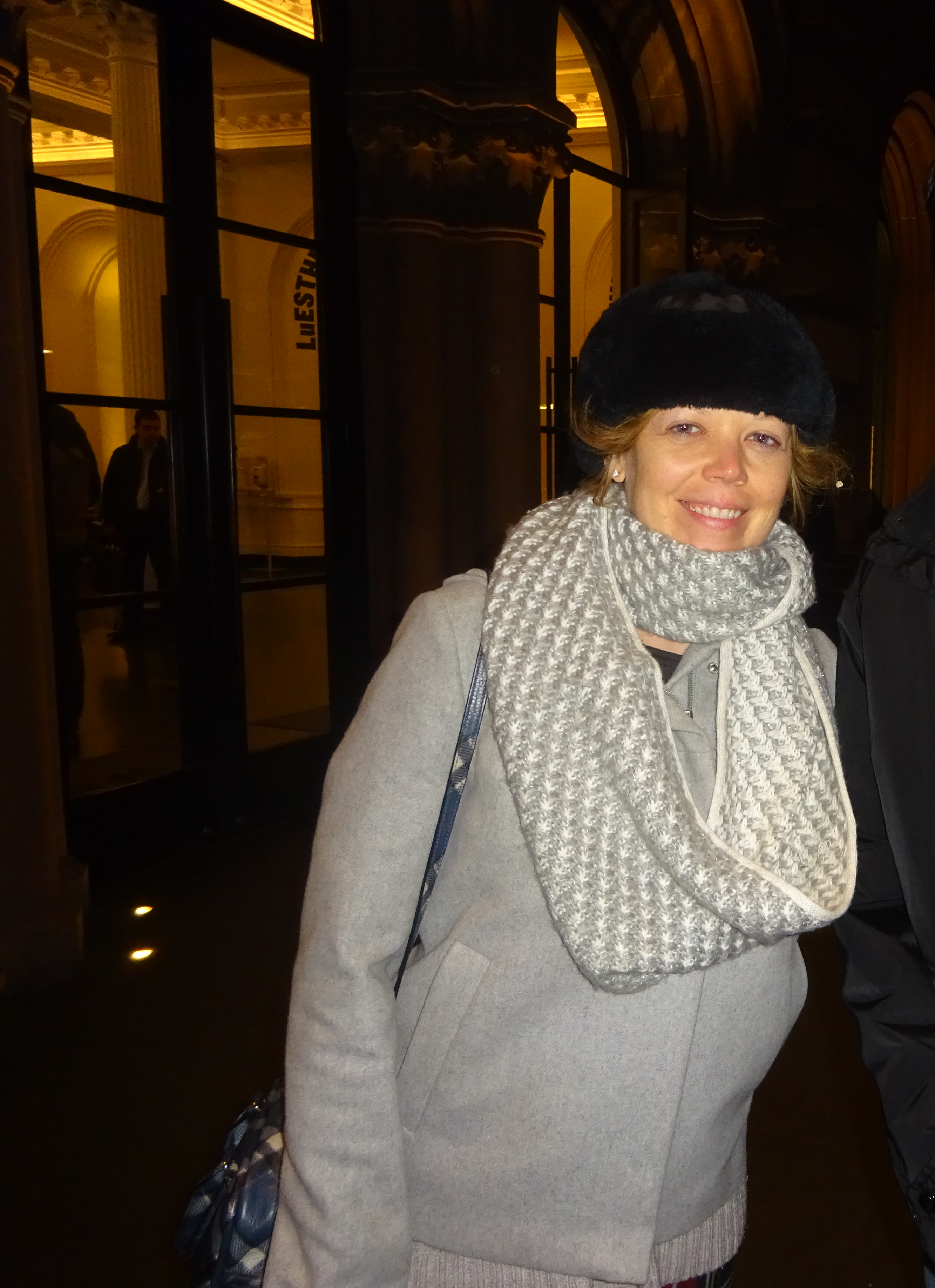 Star of The Rage: Carrie 2, Southland, and Shameless. NYC Dec '16.